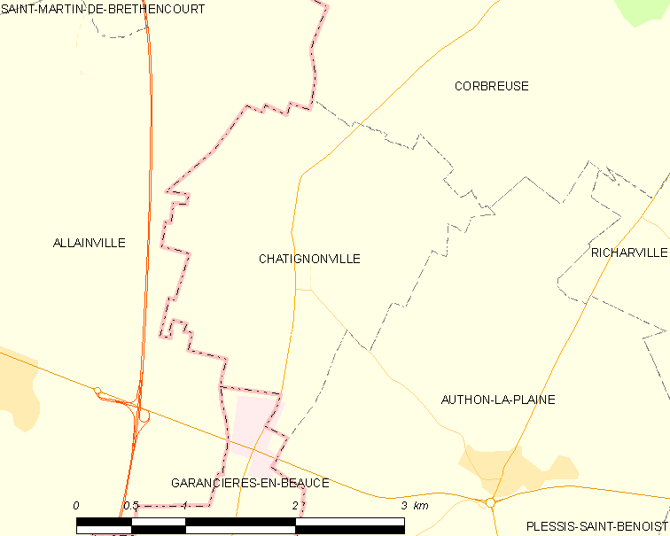 Map of French municipality Chatignonville